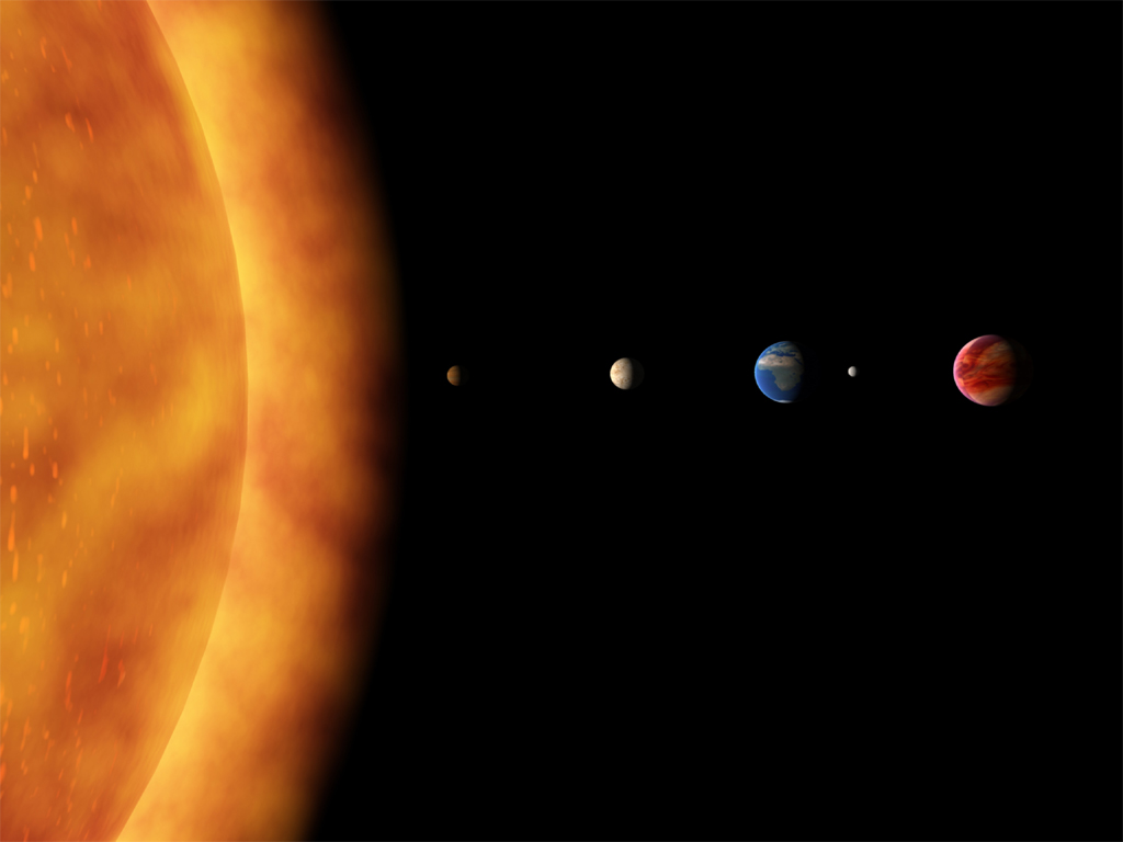 Our solar system. Created with 3ds max